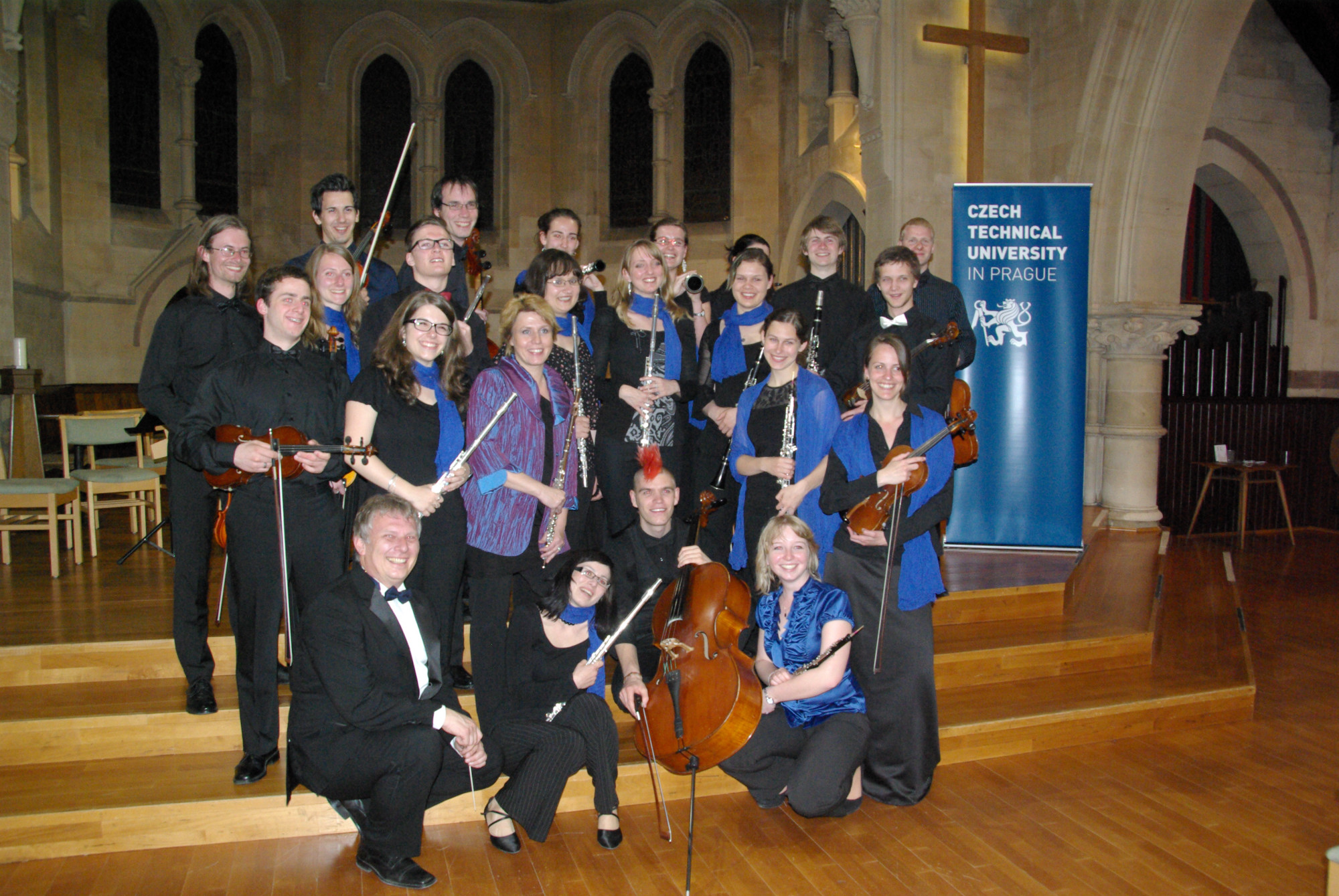 Academic orchestra of Czech Technical University